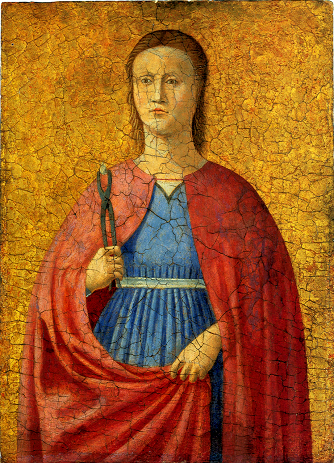 Saint Apollonia Piero della Francesca Tempera on panel, 38.8 x 28 cm Washington, National Gallery of Art